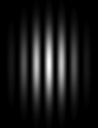 Simulation by computer of the interference figure from a double slit. Made by myself.